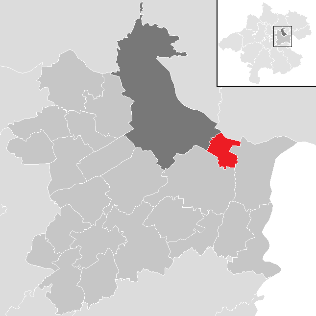 district Linz-Land